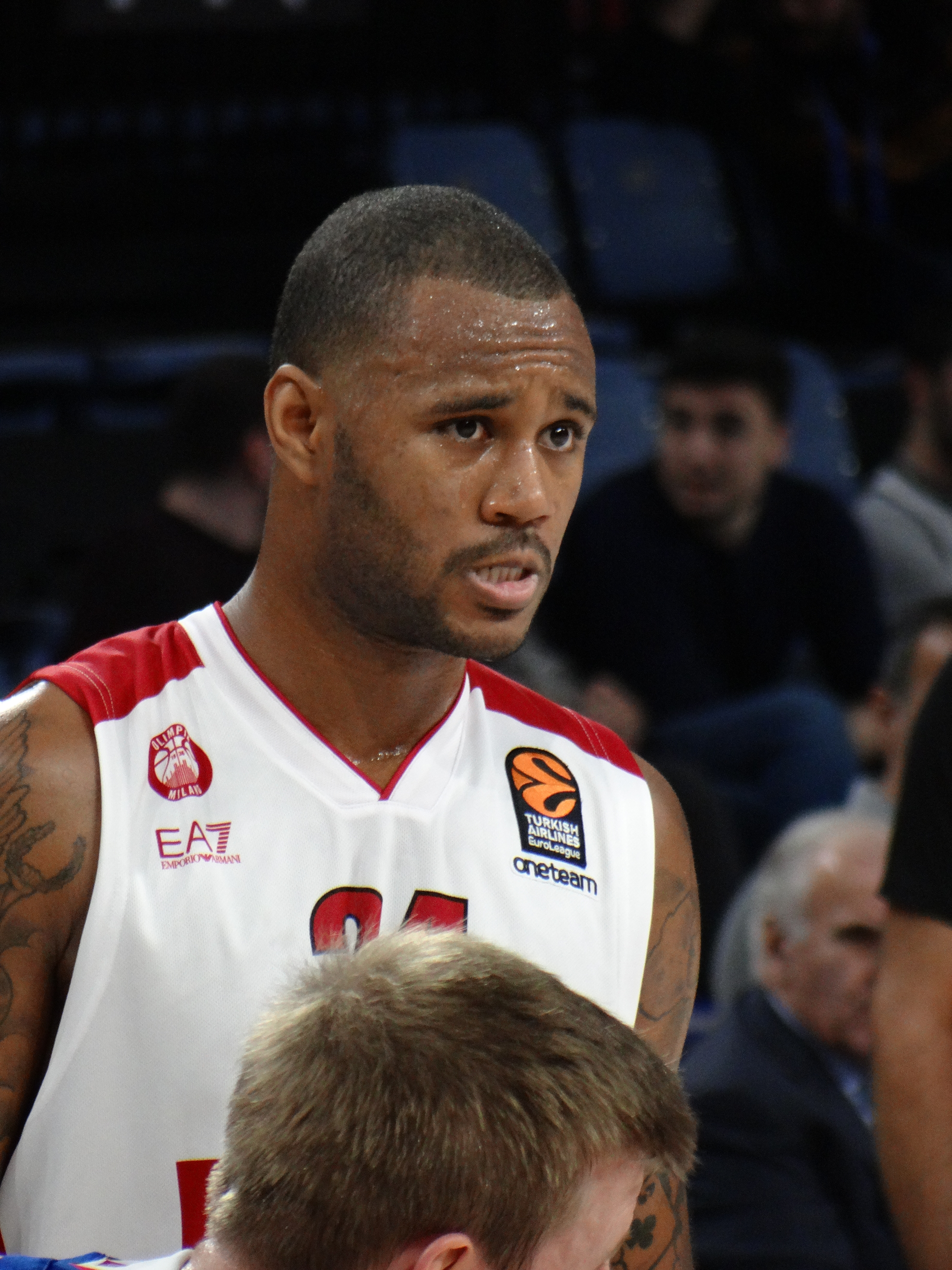 Amath M'Baye 24 AX Armani Exchange Olimpia Milan 20171130